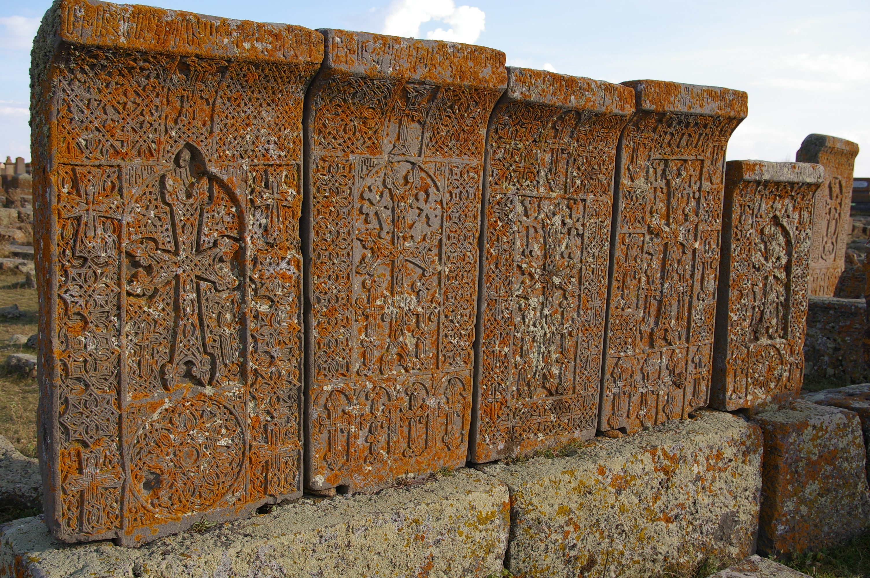 Khatchkars, Noraduz cemetery, Armenia.